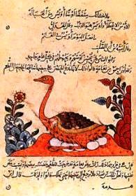 Page from the Book of Animals by Arab naturalist al Jahiz.